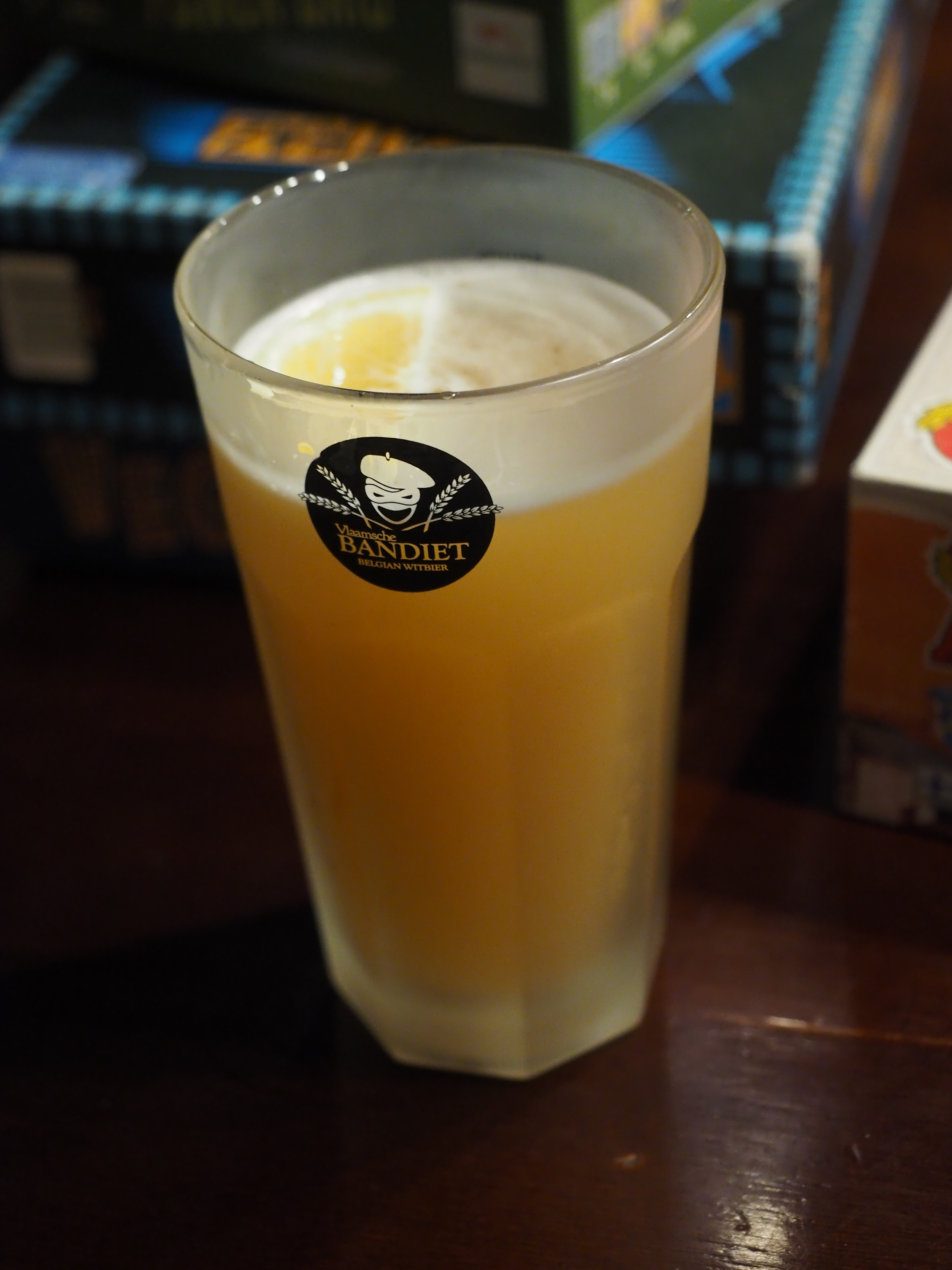 A glass of "Vlaamsche Bandiet" Belgian wheat beer.